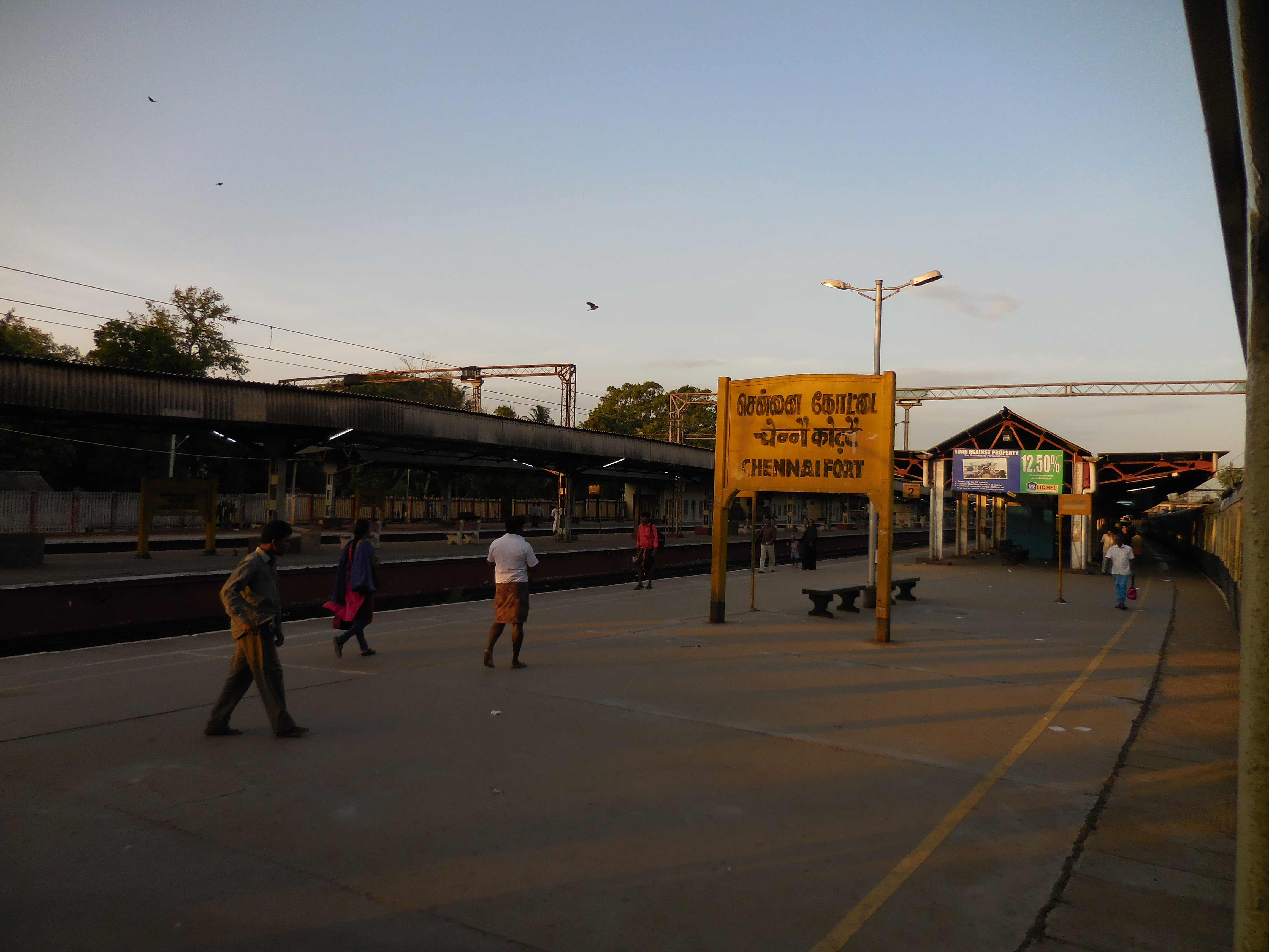 Chennai Fort railway station view at dawn, taken on 5 July 2014, 6:19 am